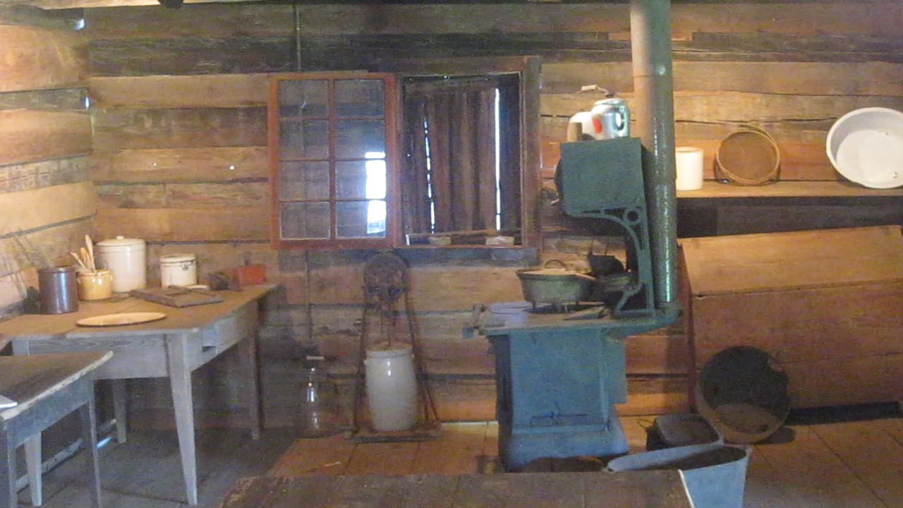 Kitchen of Germantown Colony